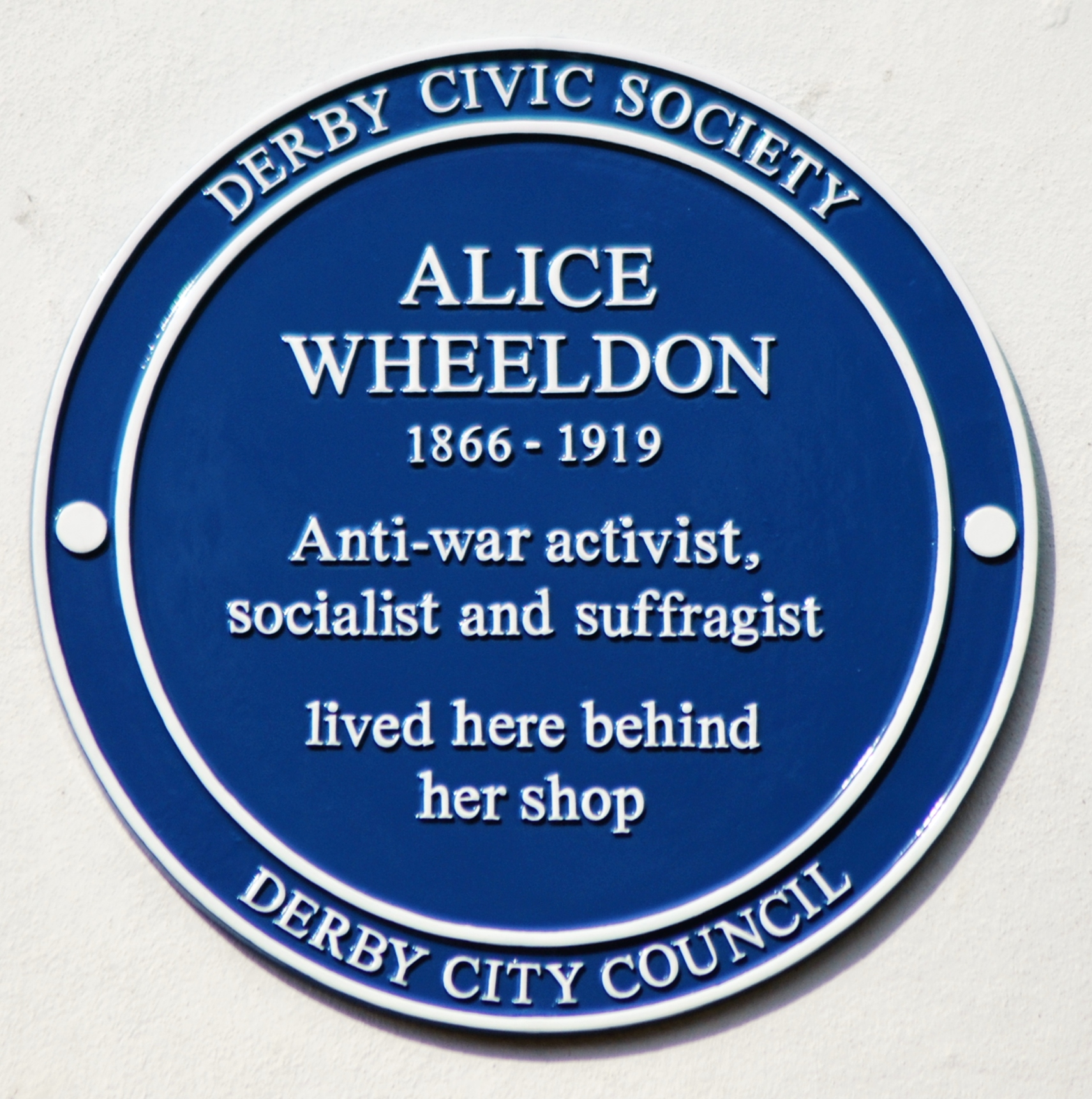 Blue Plaque on the building where Alice Wheeldon lived in Derby UK